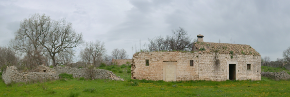 Jazzo Pagliara in Ruvo di Puglia